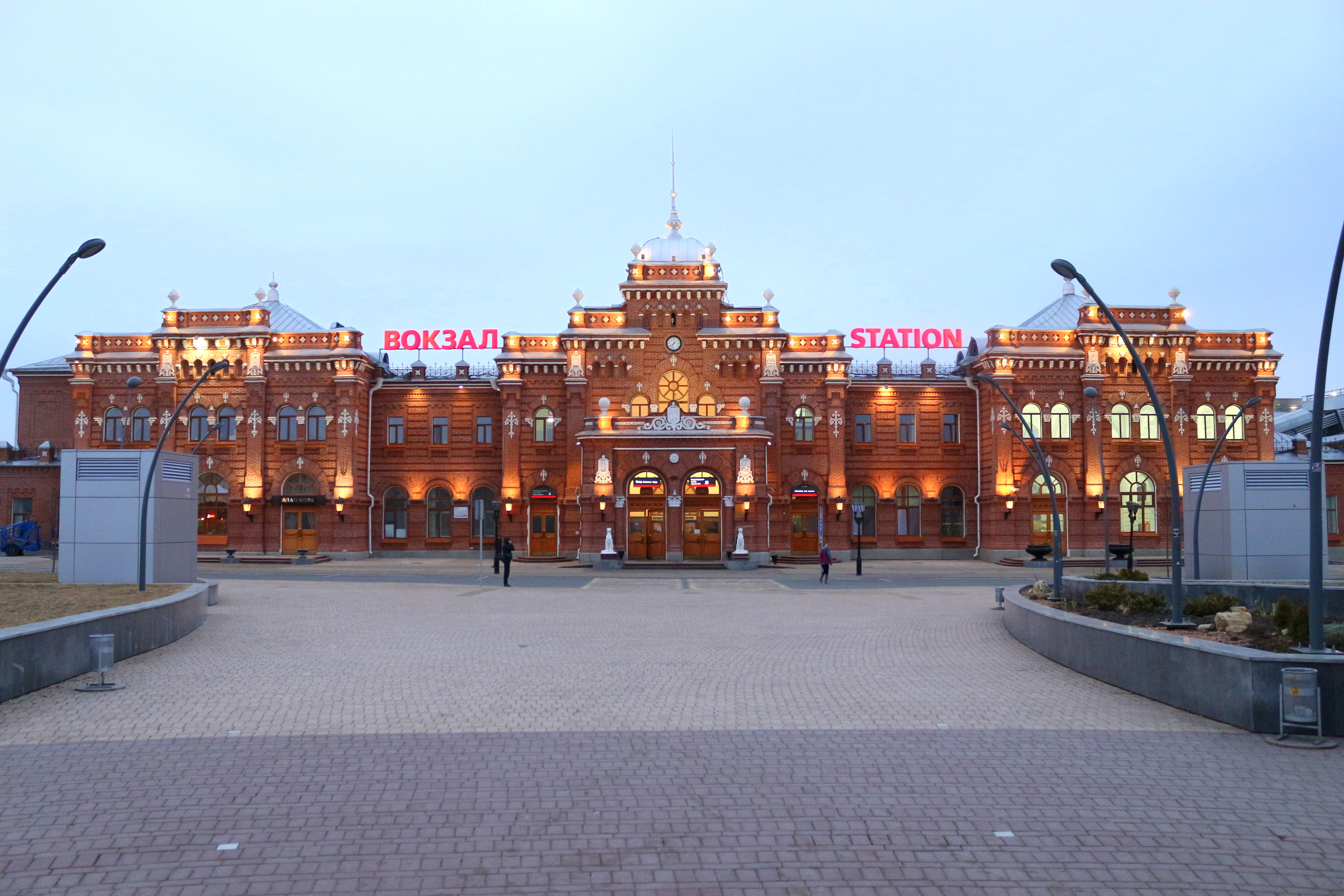 Kazan-1 railway station.